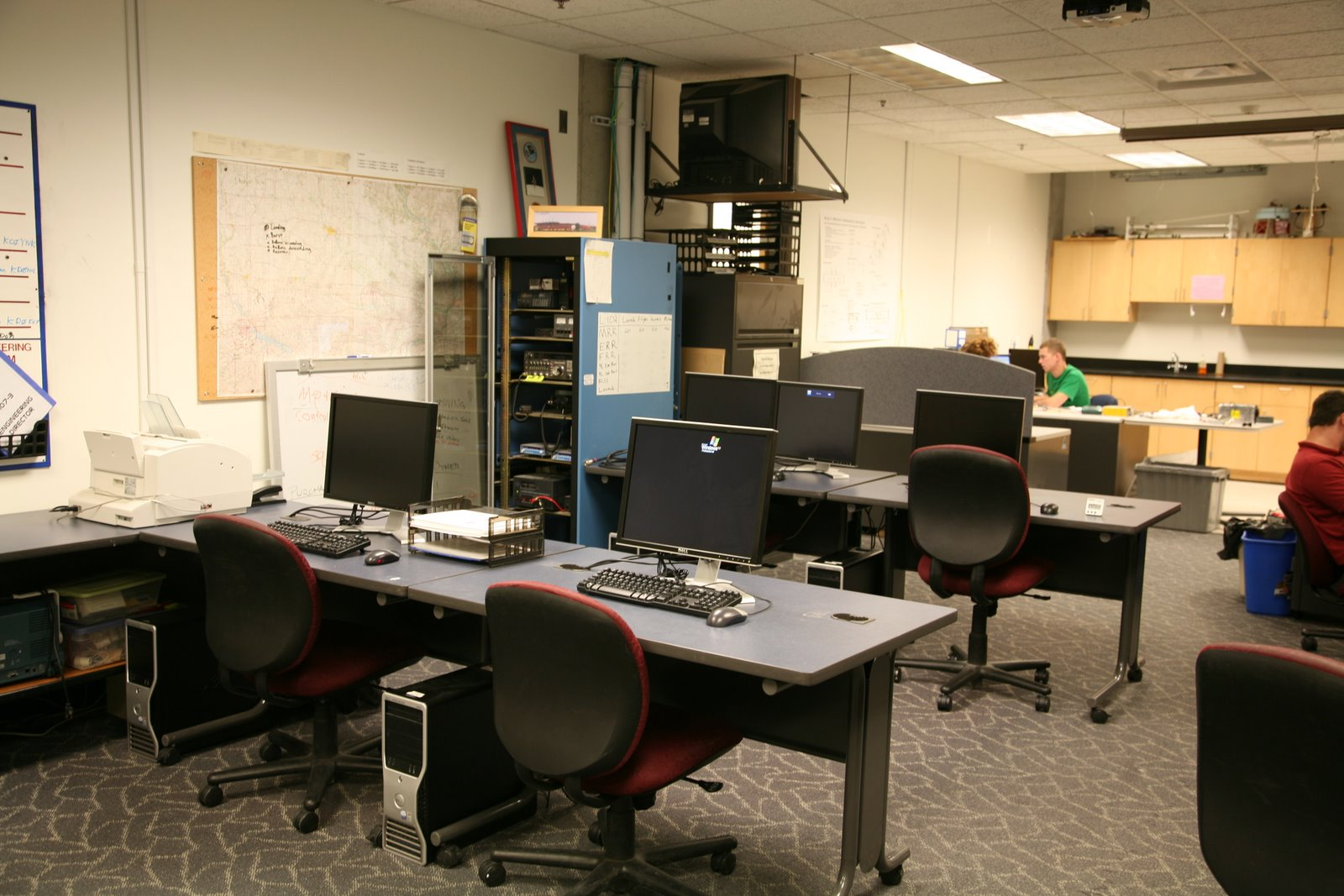 An image of the Mission Control Center at the Space Systems and Controls Lab at Iowa State University